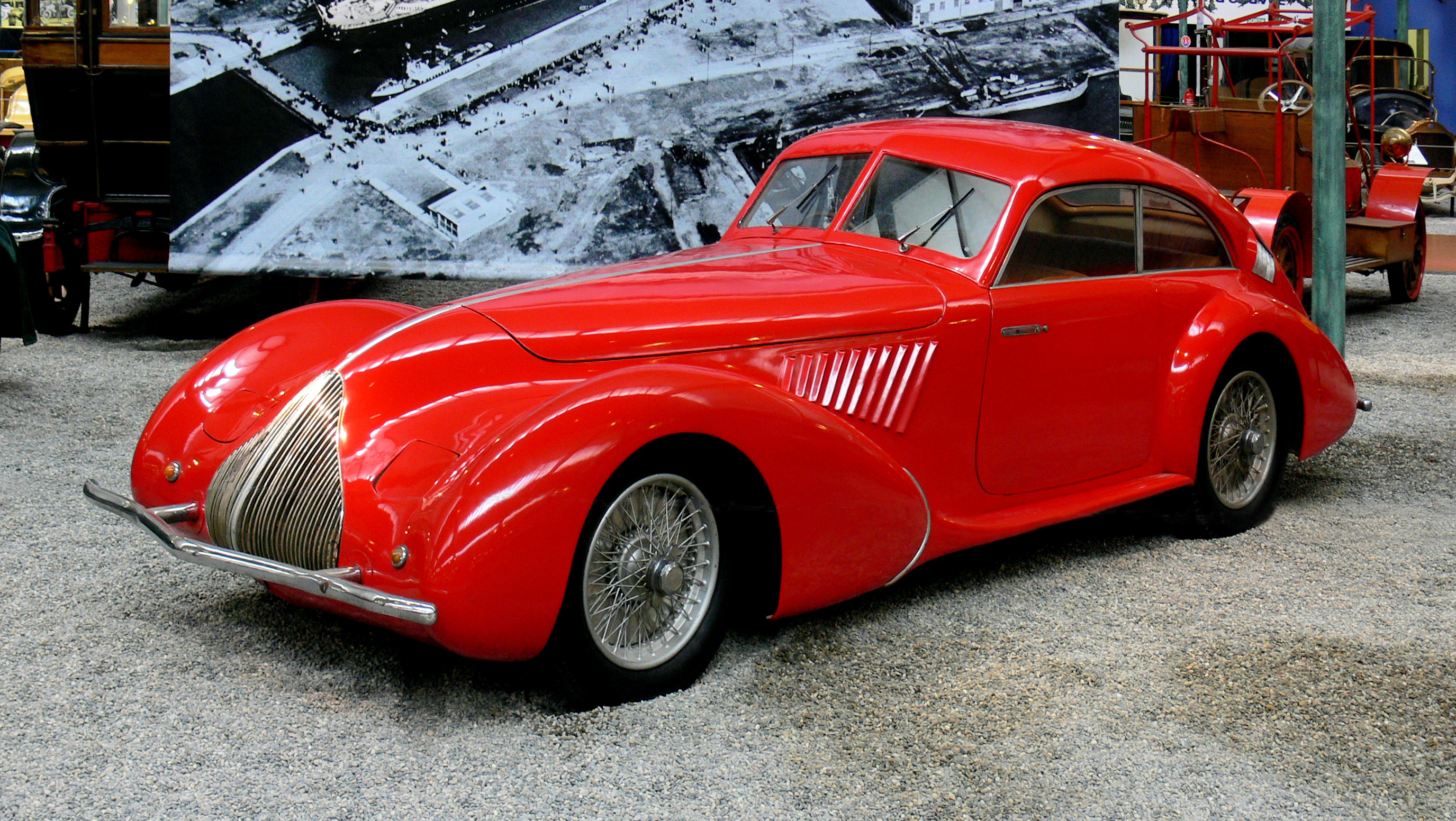 Alfa Romeo 8C 2900A (1936) in the Musée National de l'Automobile (Mulhouse)